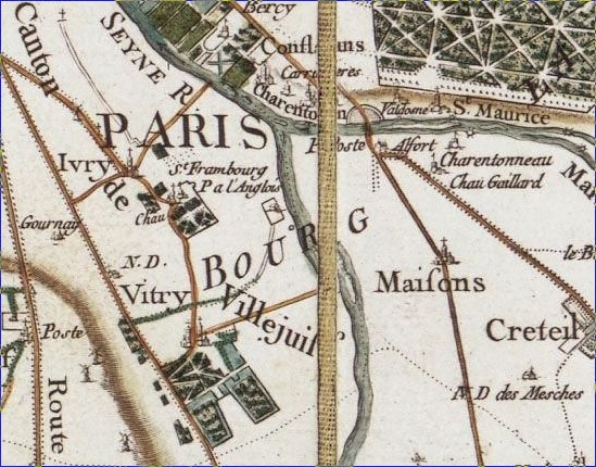 Detail of the Cassini map of Paris, centered on Vitry-sur-Seine